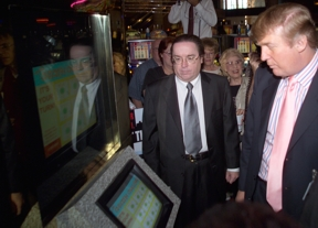 Donald Trump and Gary Green at Trump29 Casino 2004